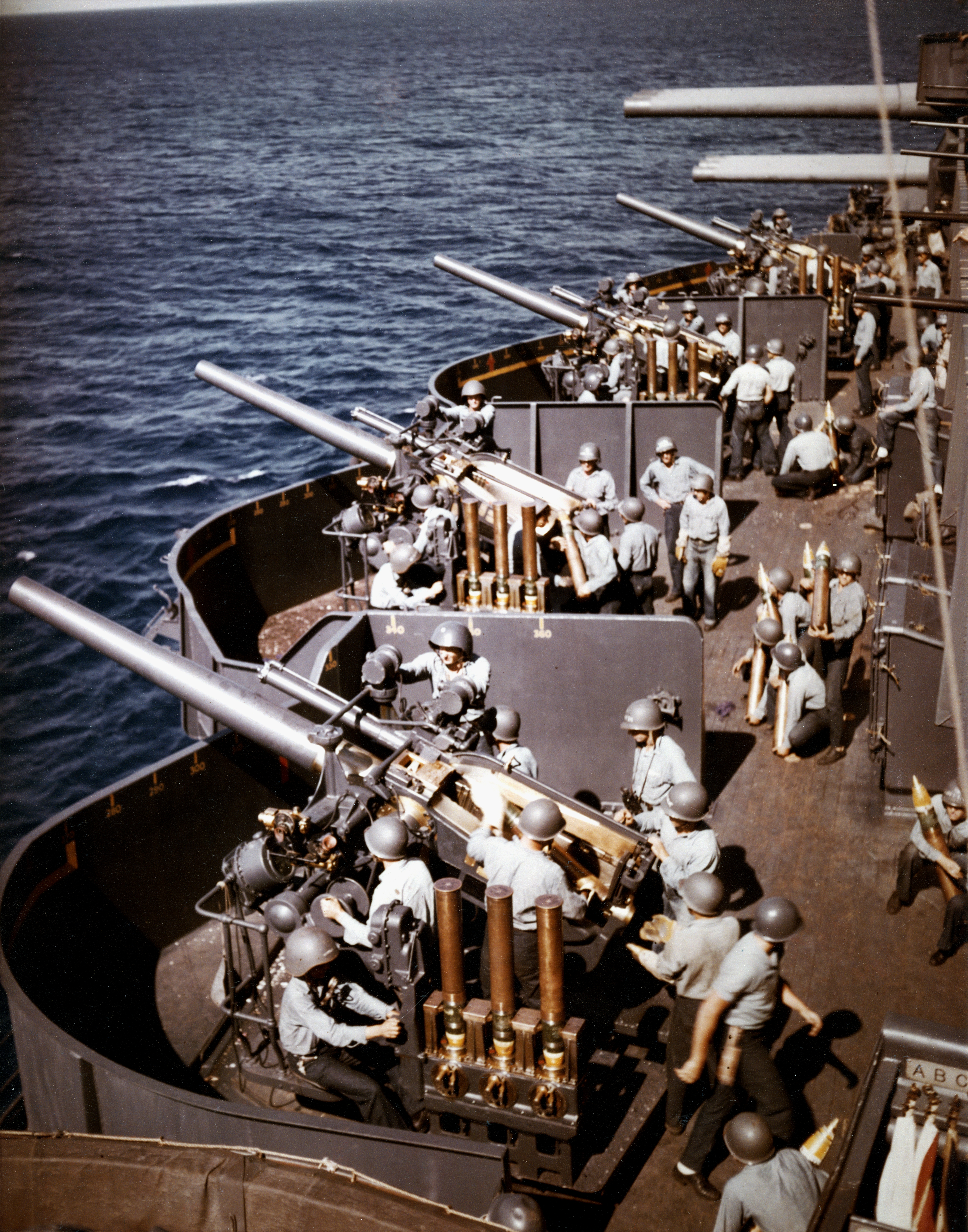 The 5"/25 (127 mm) battery aboard the U.S. Navy battleship USS New Mexico (BB-40) prepares to fire during the bombardment of Saipan, 15 June 1944. Note the time-fuze setters on the left side of each gun mount, each holding three "fixed" rounds of ammunition; the barrels of 20 mm machine guns at the extreme right; and triple the 14"/50 (34.5 cm) guns in the background.